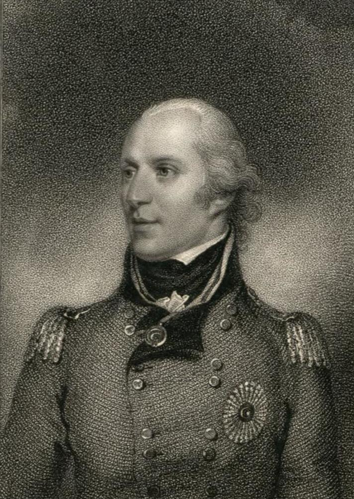 A portrait from the Welsh Portrait Collection at the National Library of Wales. Depicted person: John Stuart, Count of Maida – British Army officer of the Napoleonic Wars